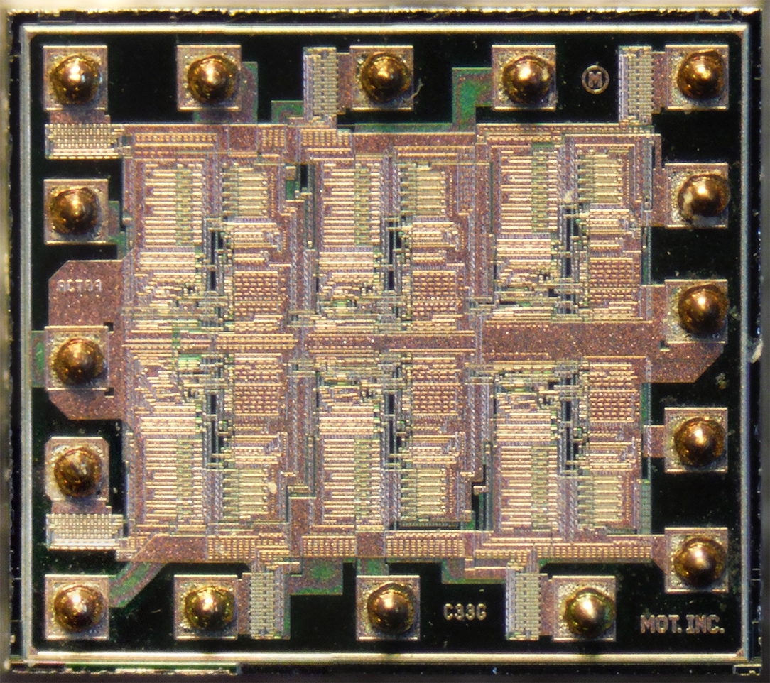 74ACT04 die